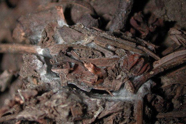 Promyrmekiaphila sp door, closed, in northern California.